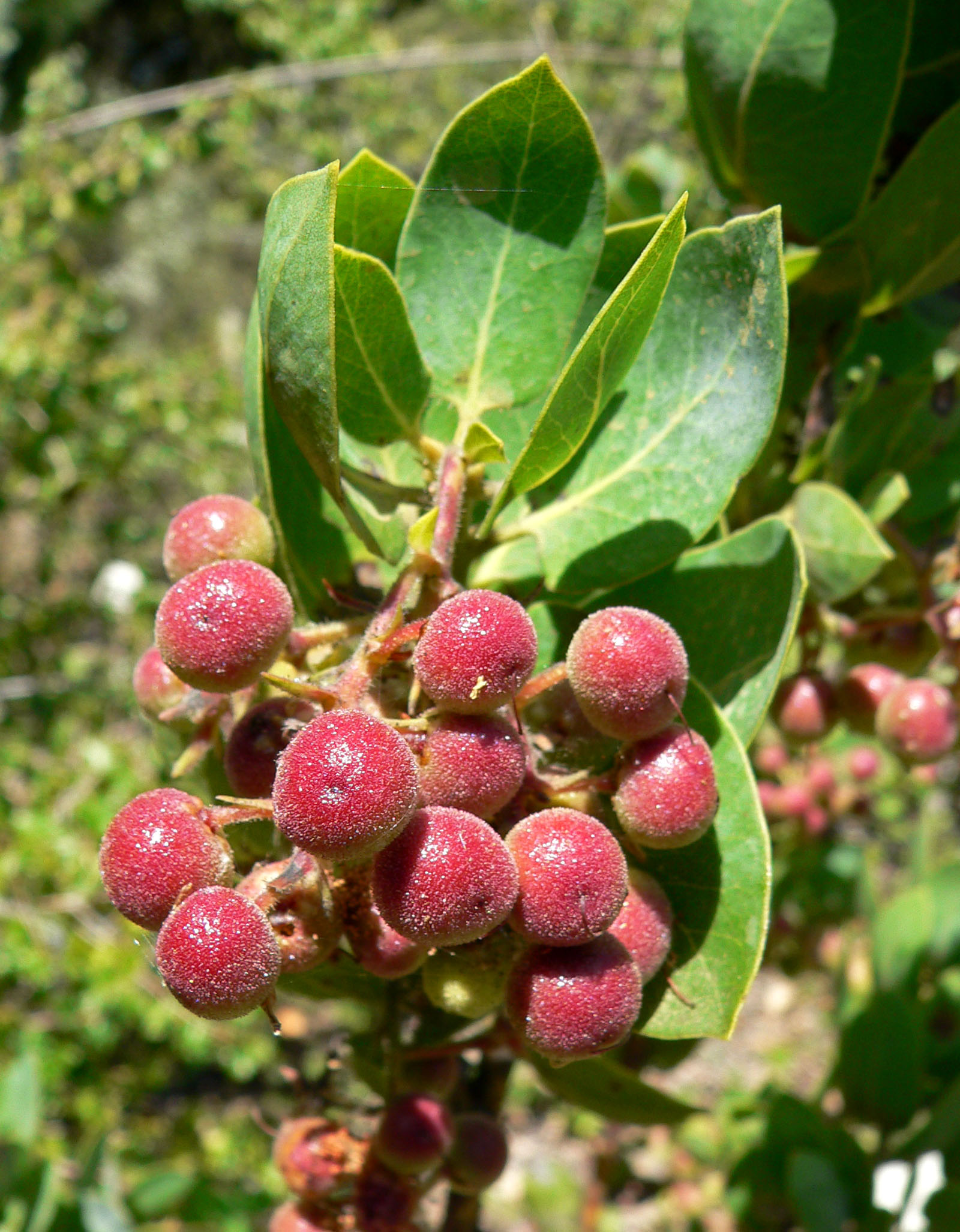 Arctostaphylos glauca — bigberry manzanita; fruit. At the University of California Botanical Garden, Berkeley Hills, California.